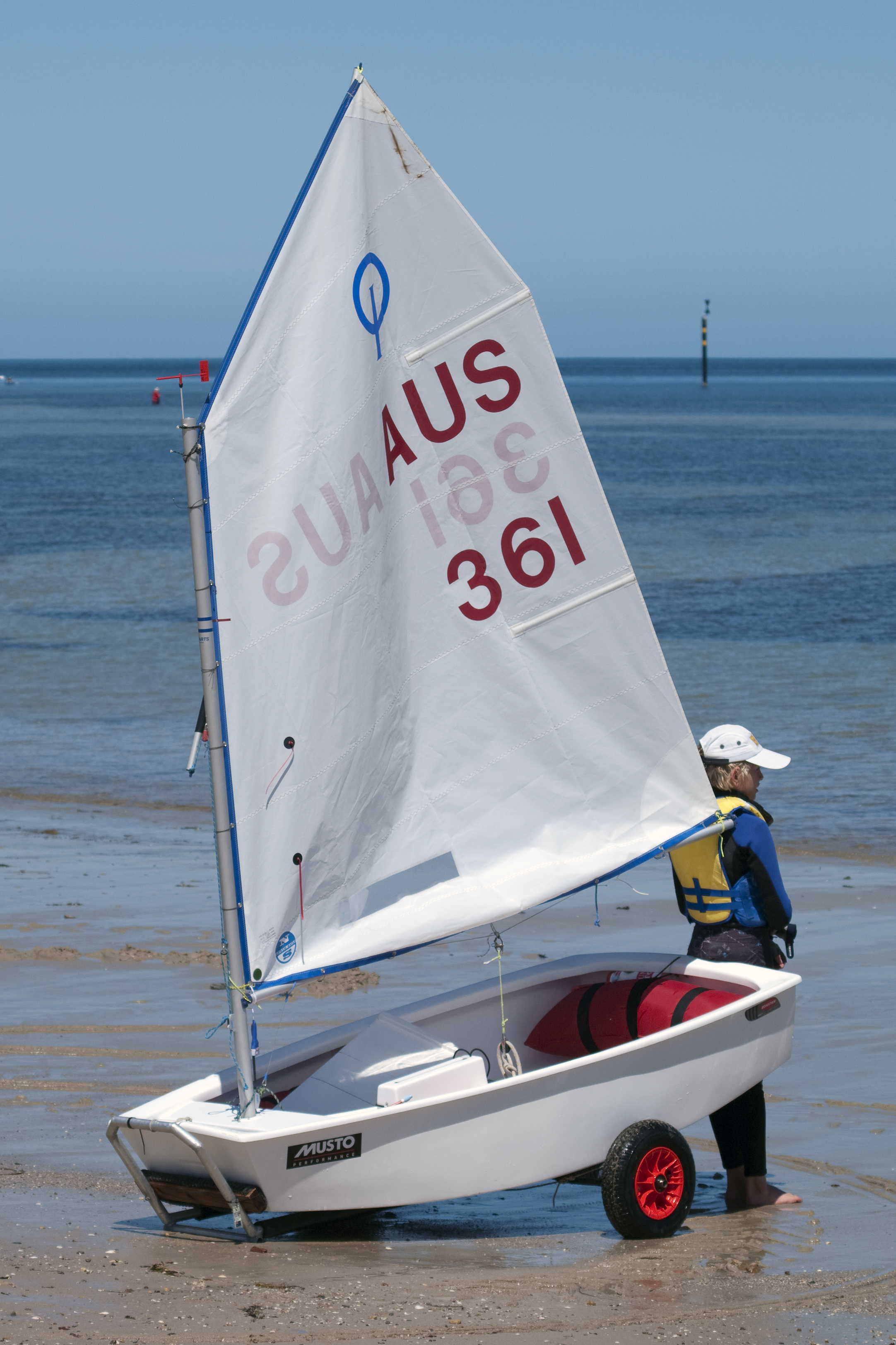 An Optimist sailing dinghy, rigged and ready to sail, at the Brighton-Seacliff Yacht Club, South Australia.